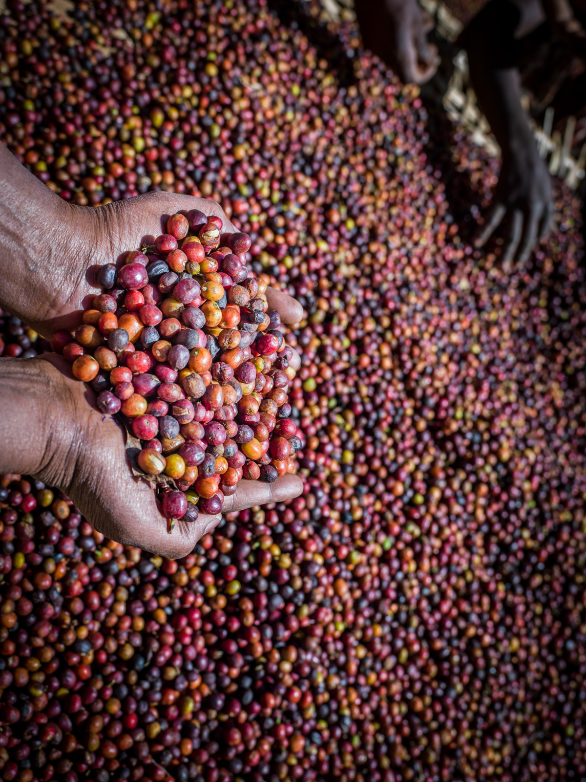 Coffee sorting process, near Hawassa. Holding up beans This is an image of "African people at work" from Ethiopia